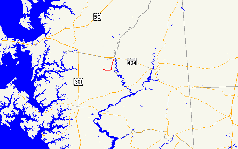 Map of Maryland Route 303